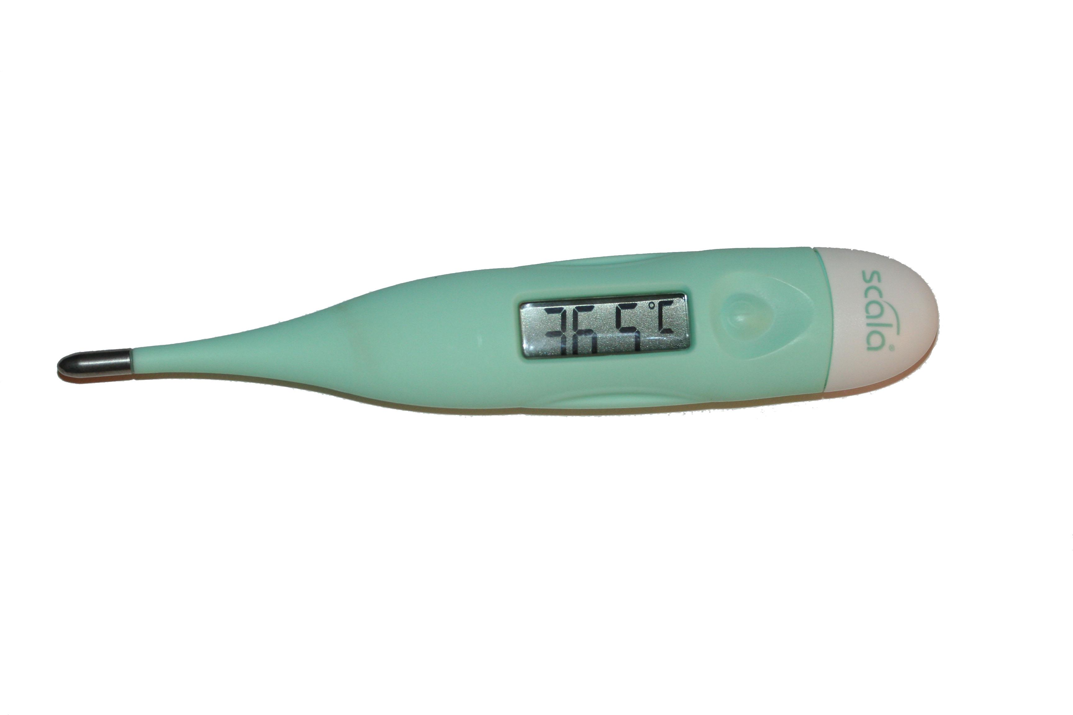 Medical thermometer